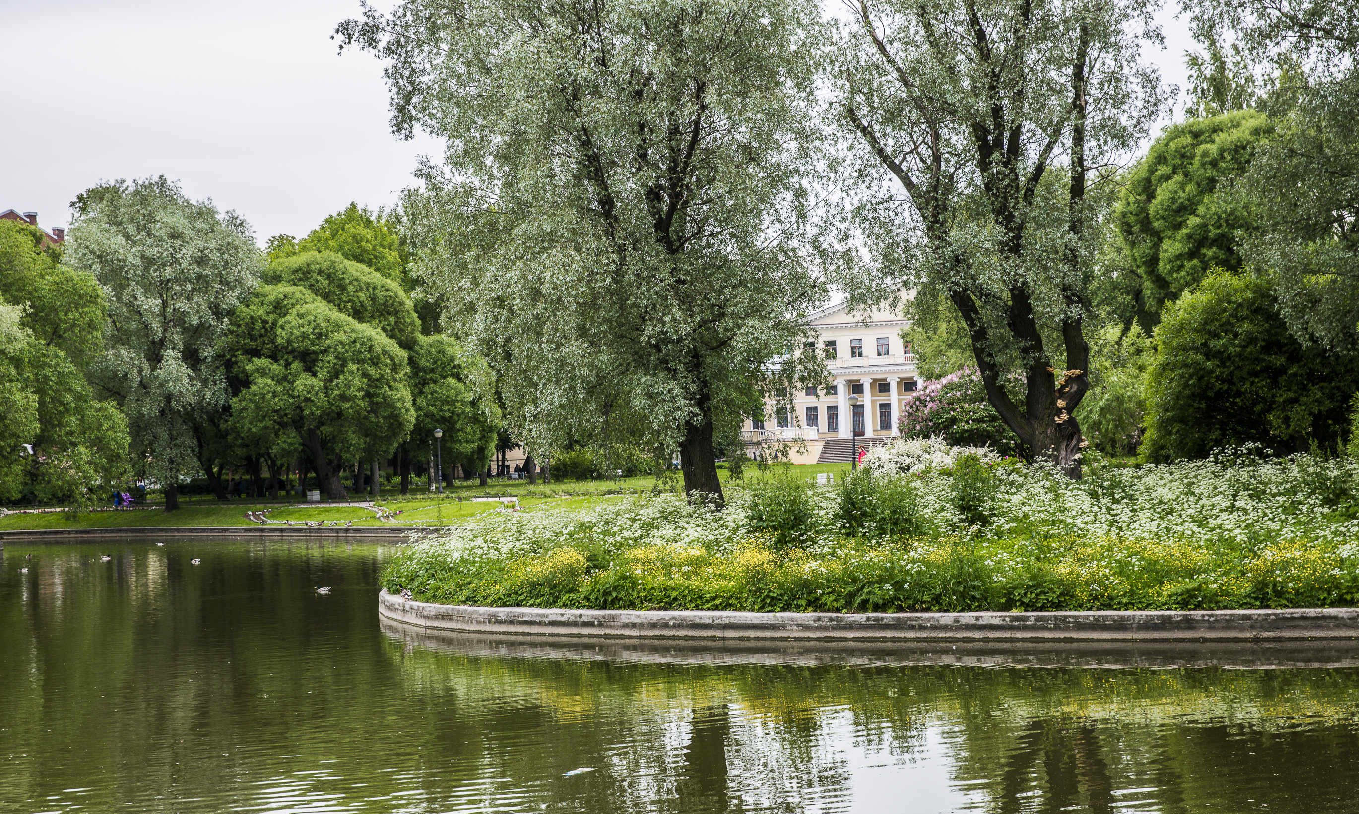 Yusupov Palace and Garden on Sadovaya Street